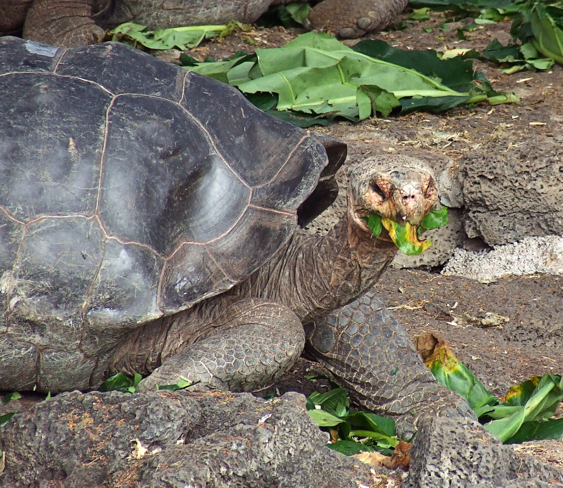 Galapagos islands giant tortoise feeding